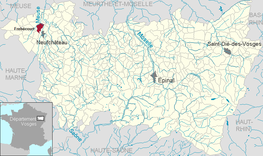 Frebécourt in the department of Vosges, Lorraine, France